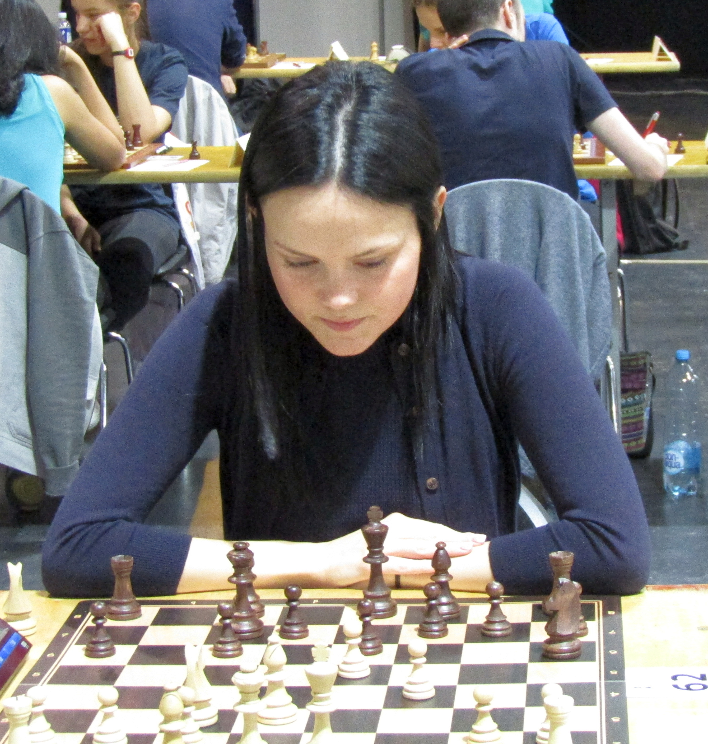 Viktorija Ni, chess player from Latvia, 2016